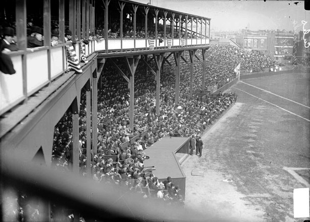 Third-base grandstand at West Side Grounds, 1908